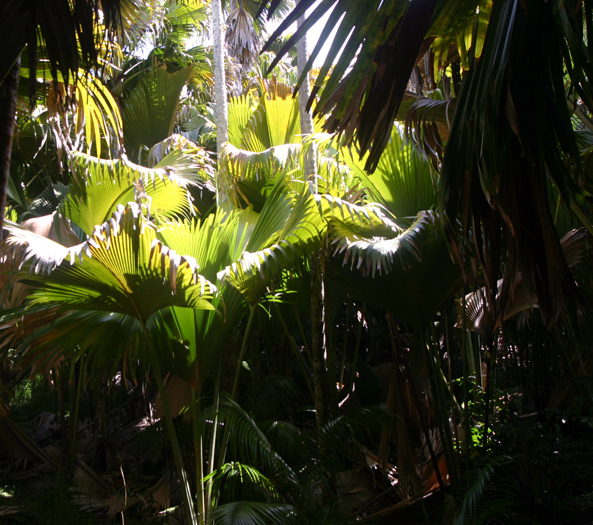 Vallée de Mai Nature Reserve — on Preslin Island of the Seychelles, with endemic Coco de mer (Lodoicea maldivica) palm trees.